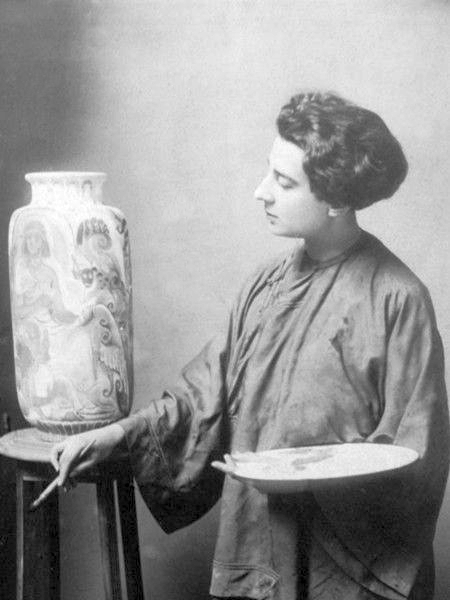 Photography of Louise Janin in 1924